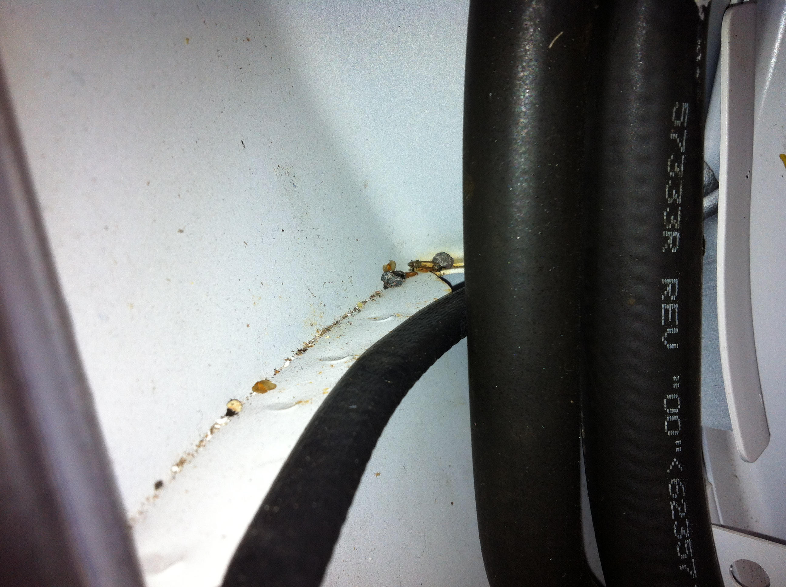 Rust on a Vespa GTS 300 with about 1.000 km